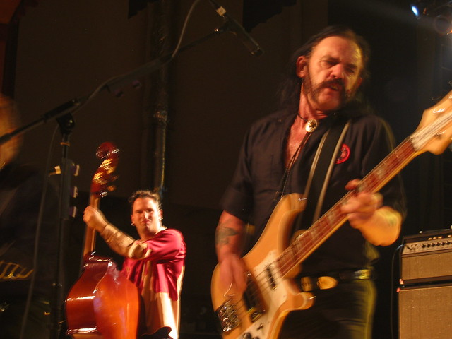 Djordje Stijepovic and Lemmy Kilmister